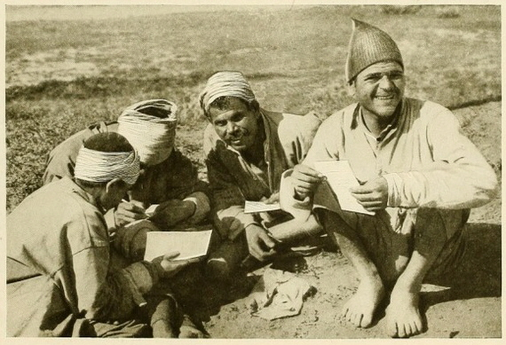 “Egyptian Labors in Palestine” - from the book Fighting America's fight.